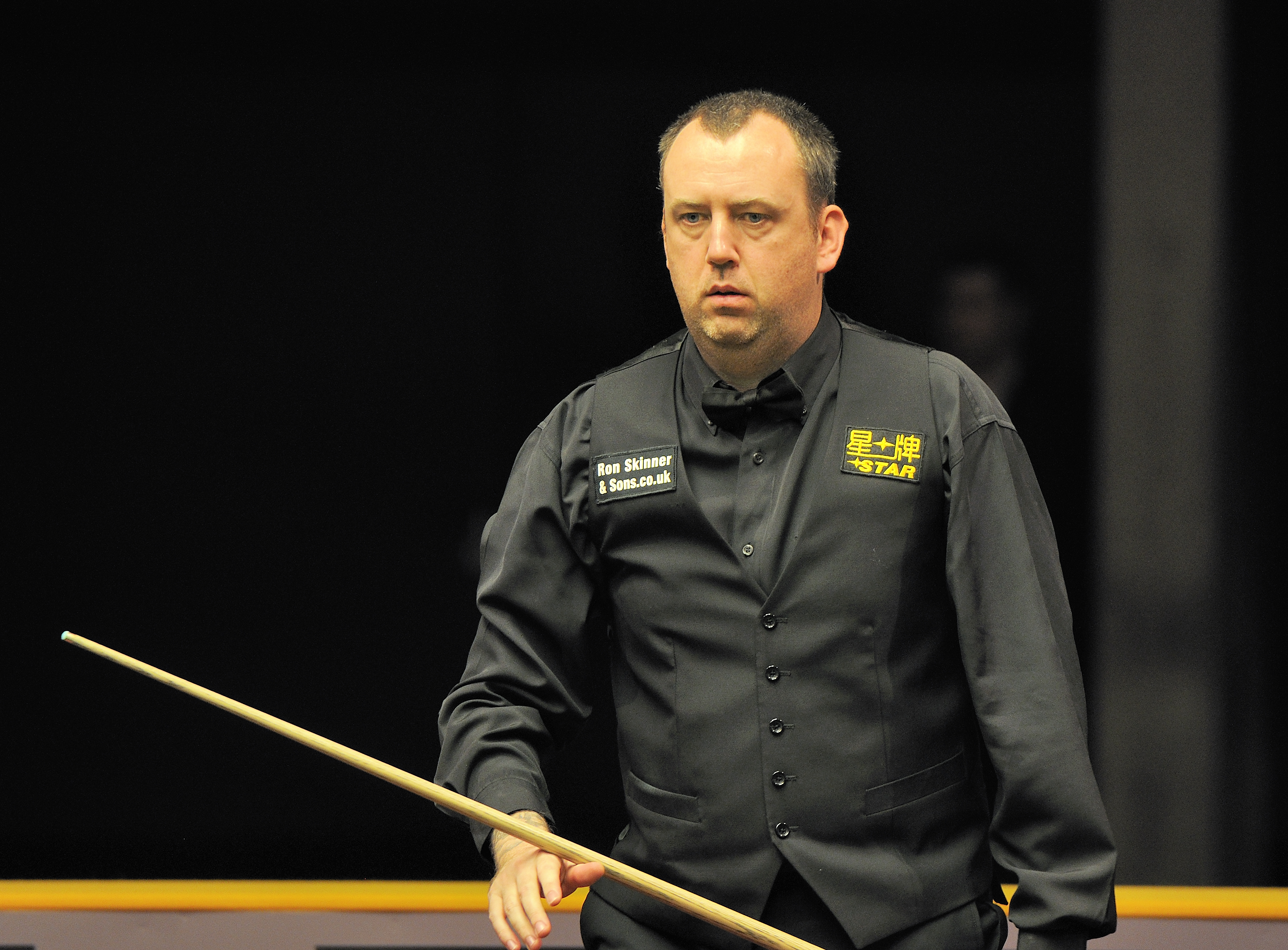 Picture taken in Berlin during the Snooker German Masters in 2014. Mark Williams.